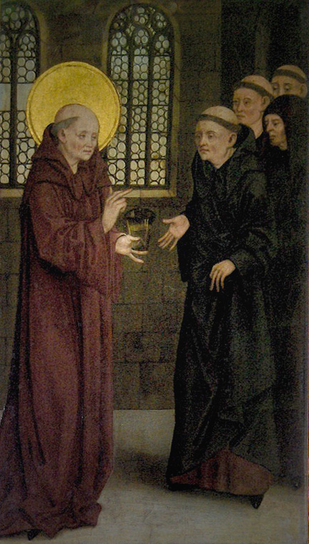 St. Benedict and the cup of poison; oil on wood; end 15th c.; anonymous Austrian master; museum of the Melk Abbey, Austria